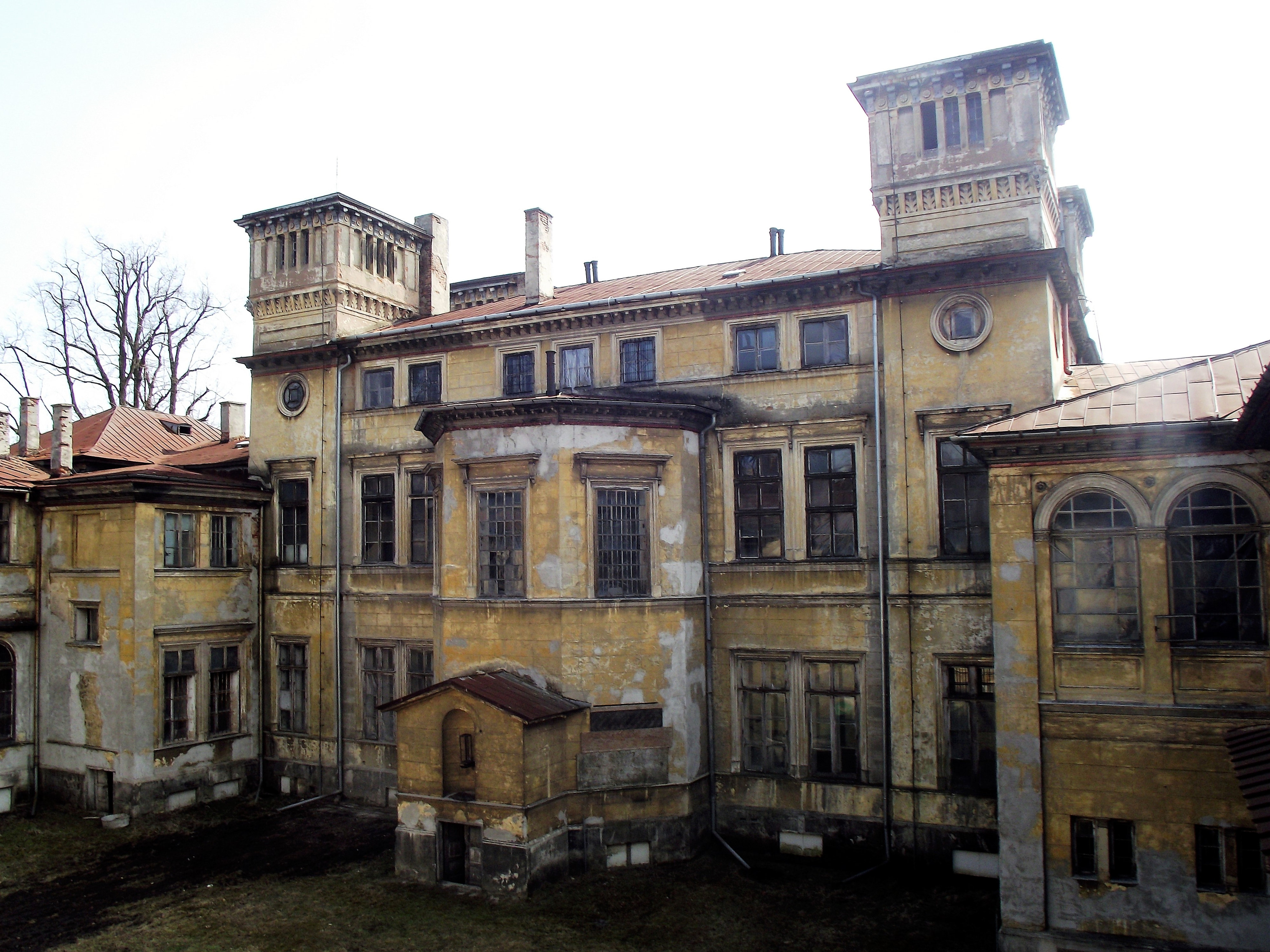 Rear facade of the Potocki Palace in Krzeszowice, Poland.